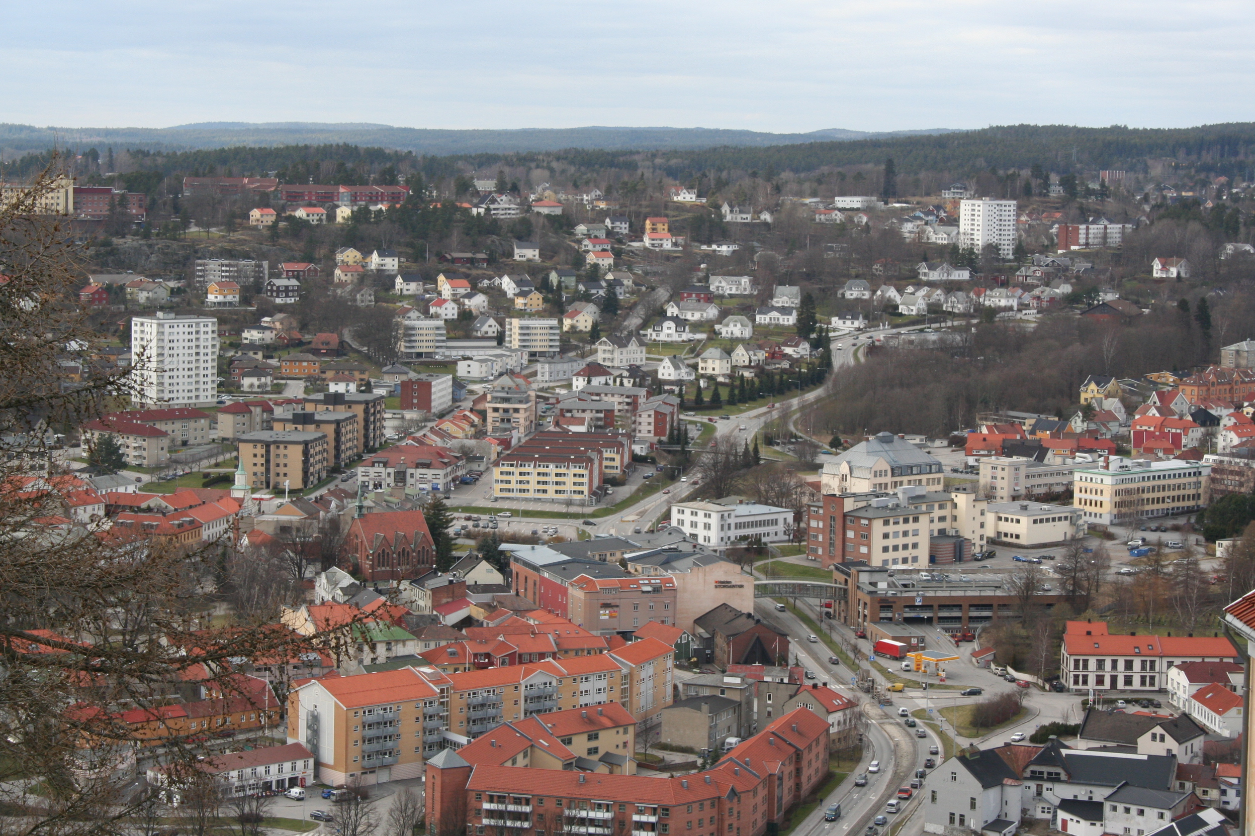 the town of Halden seen from the Fredriksten Fortress